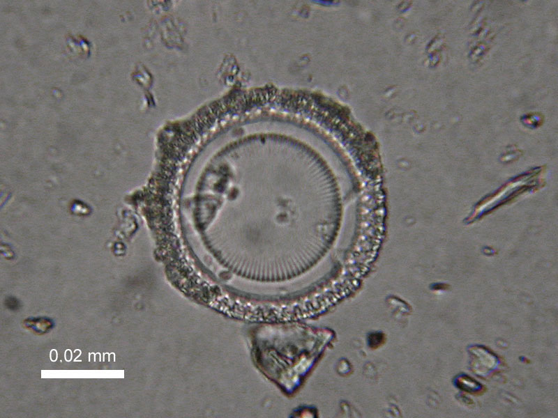 Fossil diatom under microscope, from the Paleogene of Chubut, Argentina